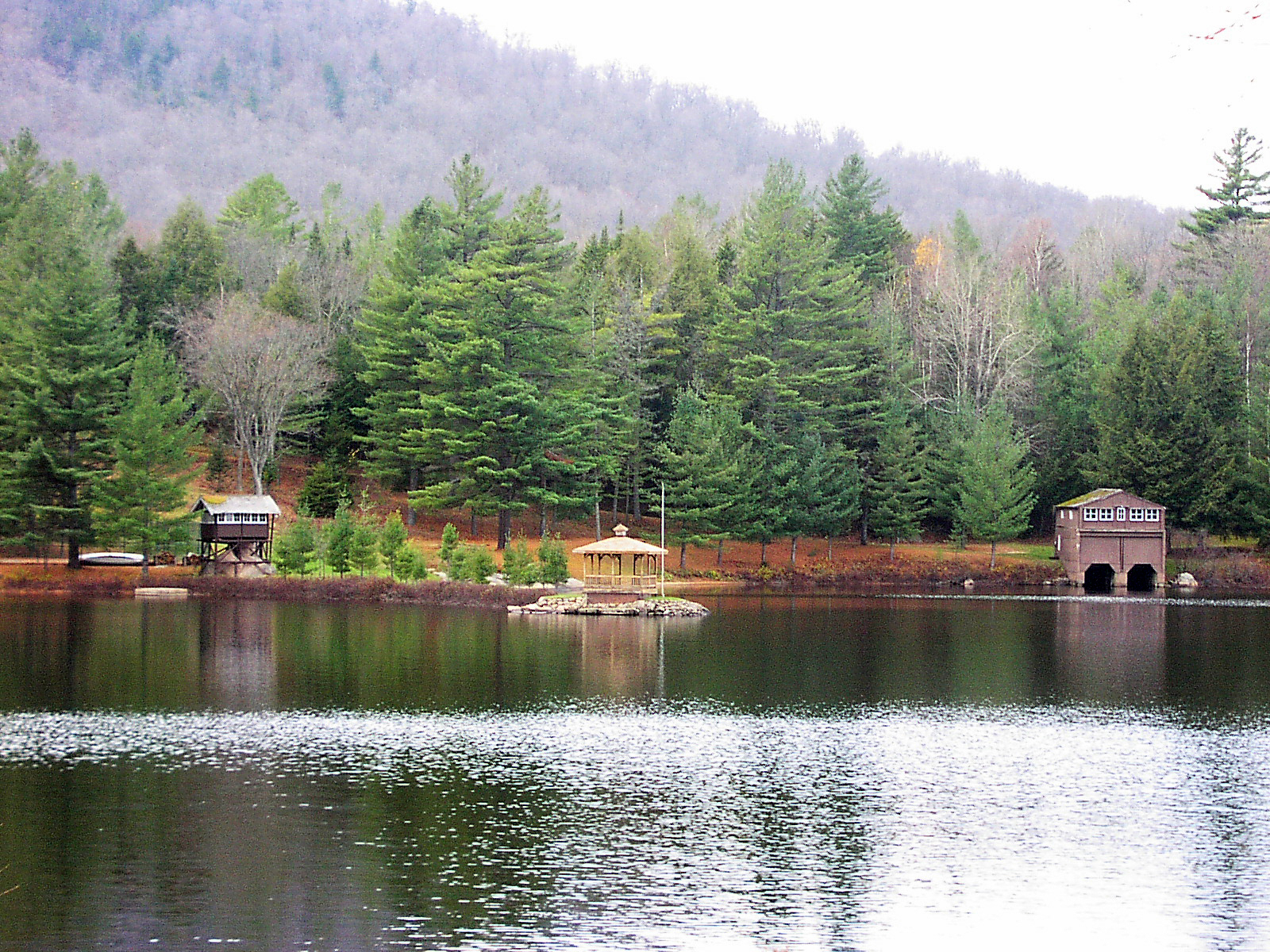 Dan Carmichael Some 'camps' on the furthest part of Big Tupper.